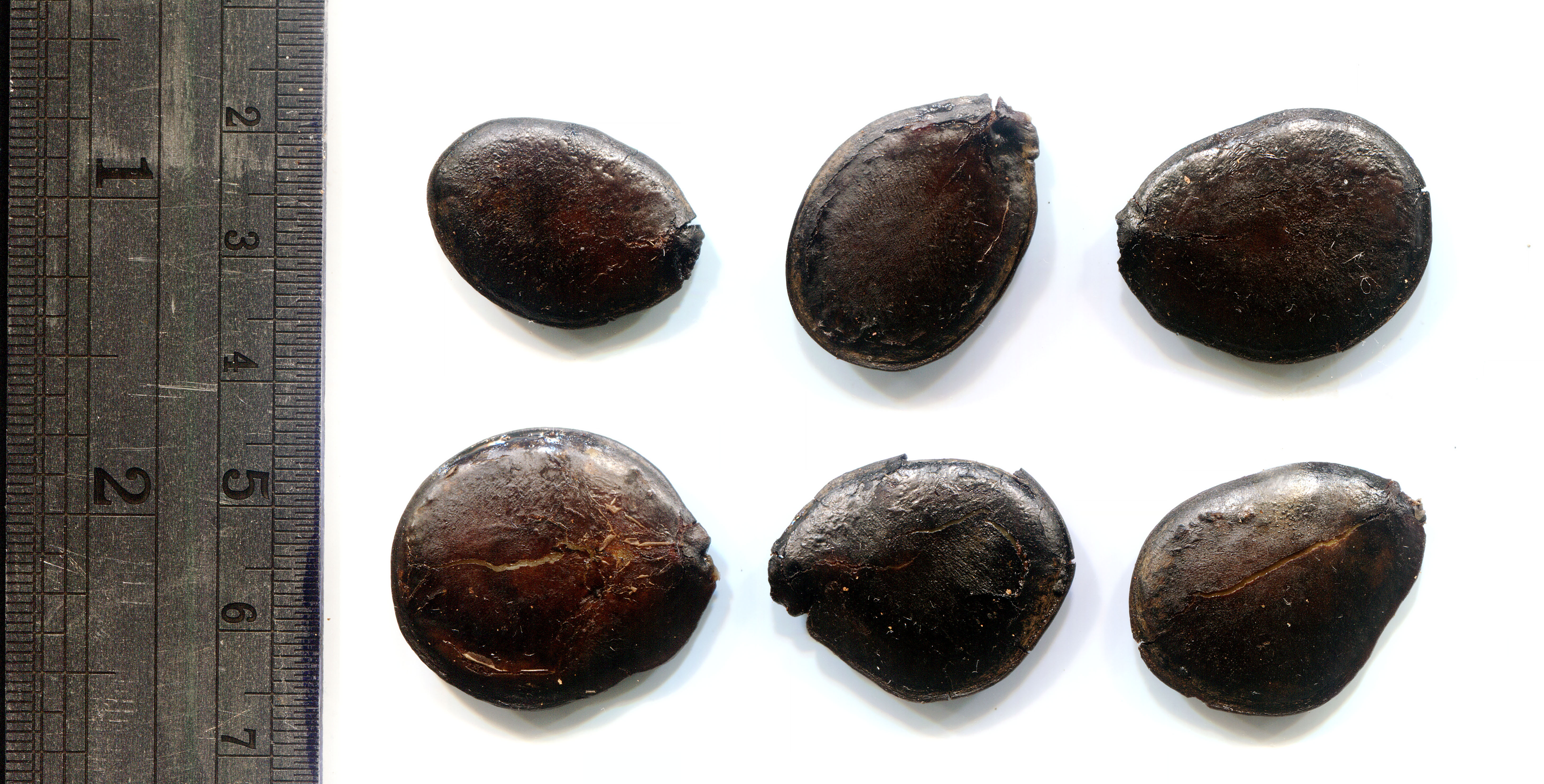 Seeds of the Microberlinia brazzavillensis, or Zebrawood, tree with ruler for scale.